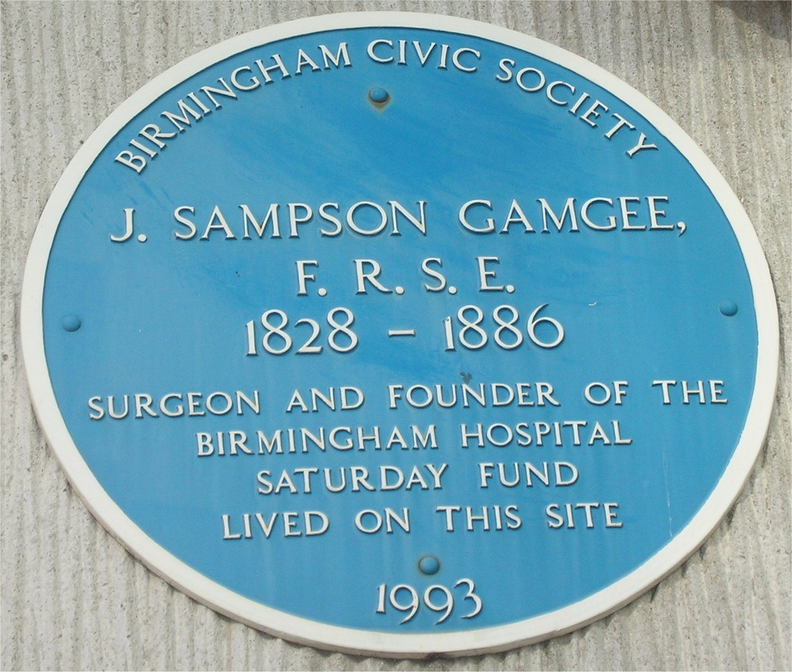 Blue plaque to Sampson Gamgee, pioneer of aseptic surgery, on the wall of the Birmingham Repertory Theatre. Photographed by me 26 October 2006. Oosoom